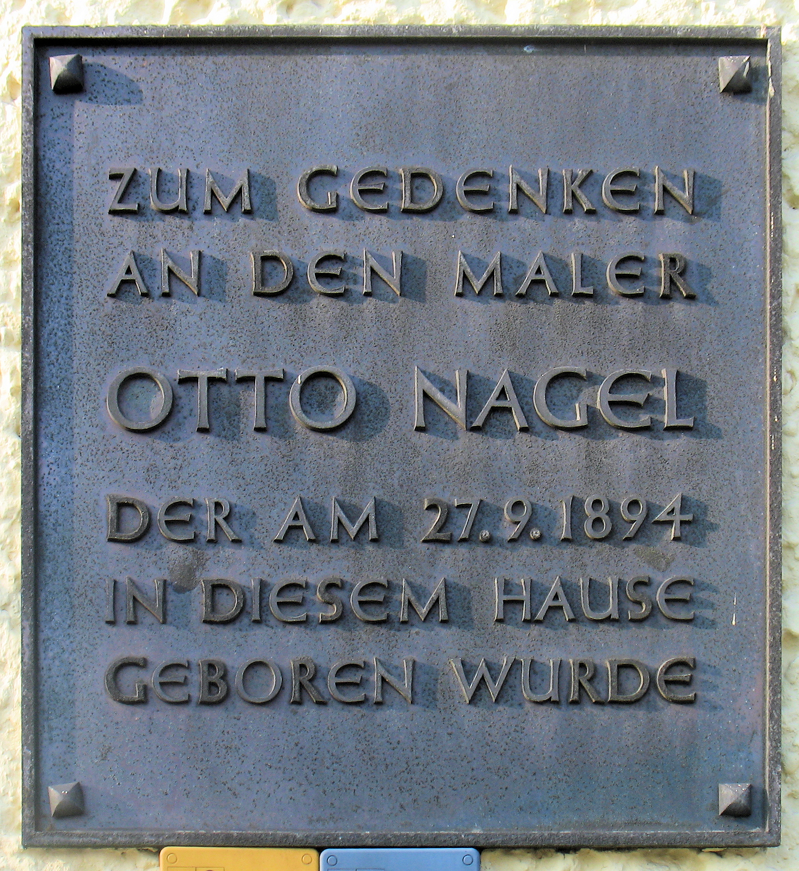 Memorial plaque, Otto Nagel, Reinickendorfer Straße 67, Berlin-Gesundbrunnen, Germany Koordinate:52°33′10″N 13°21′59″E / 52.55278°N 13.36639°E